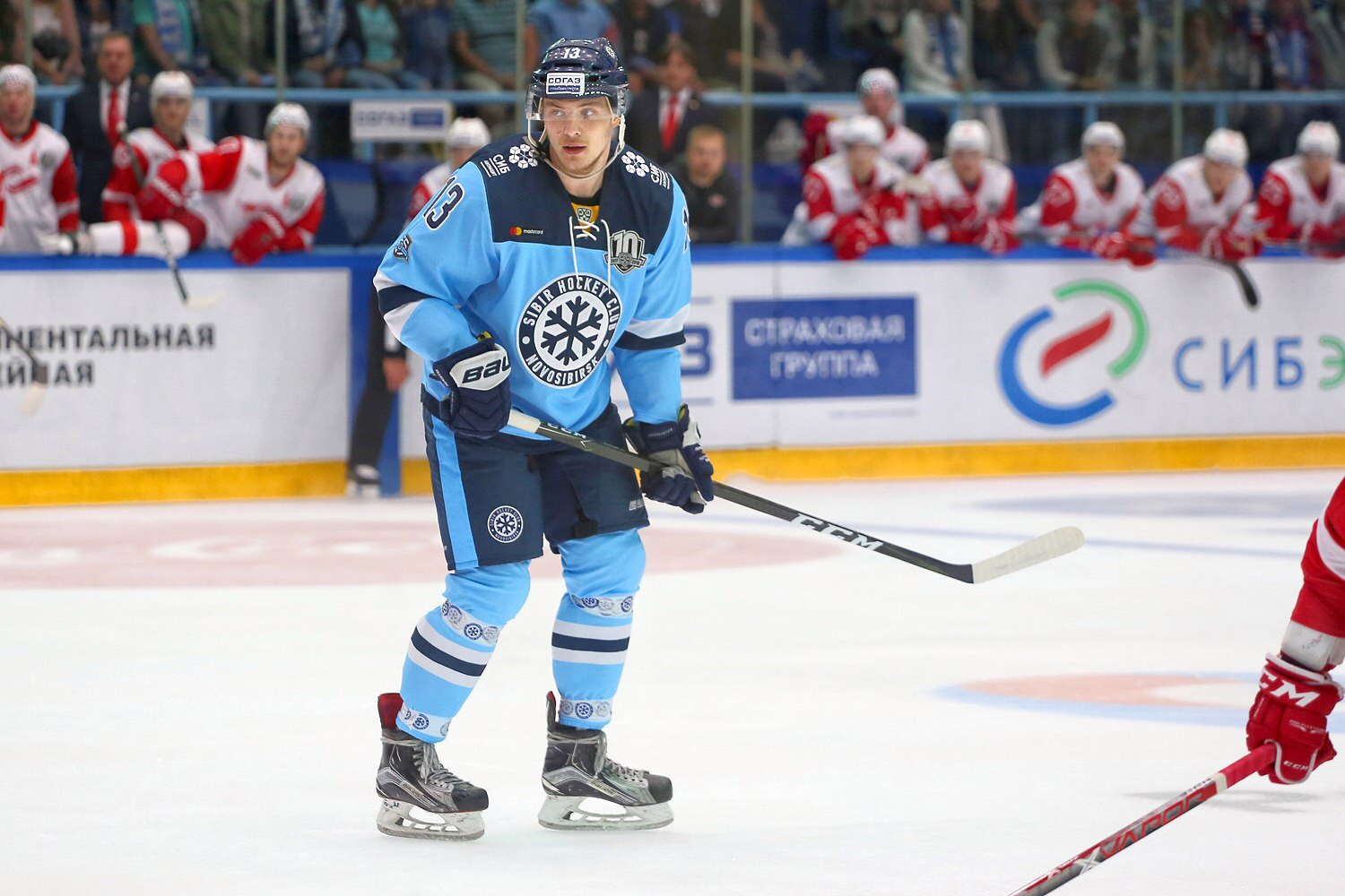 Nikolay Demidov, HC Sibir, 2017